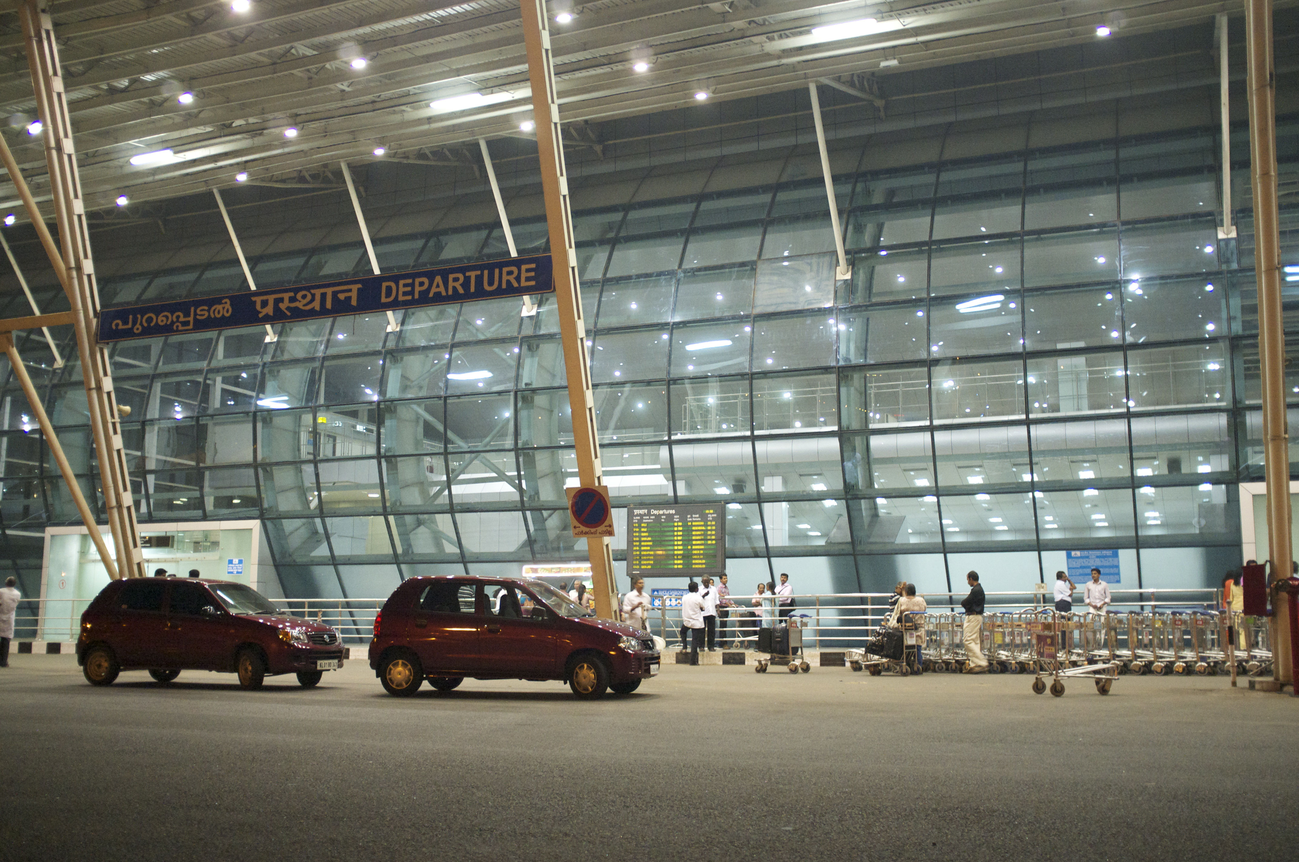 Departures terminal area outside TRV, Trivandrum airport Kerala